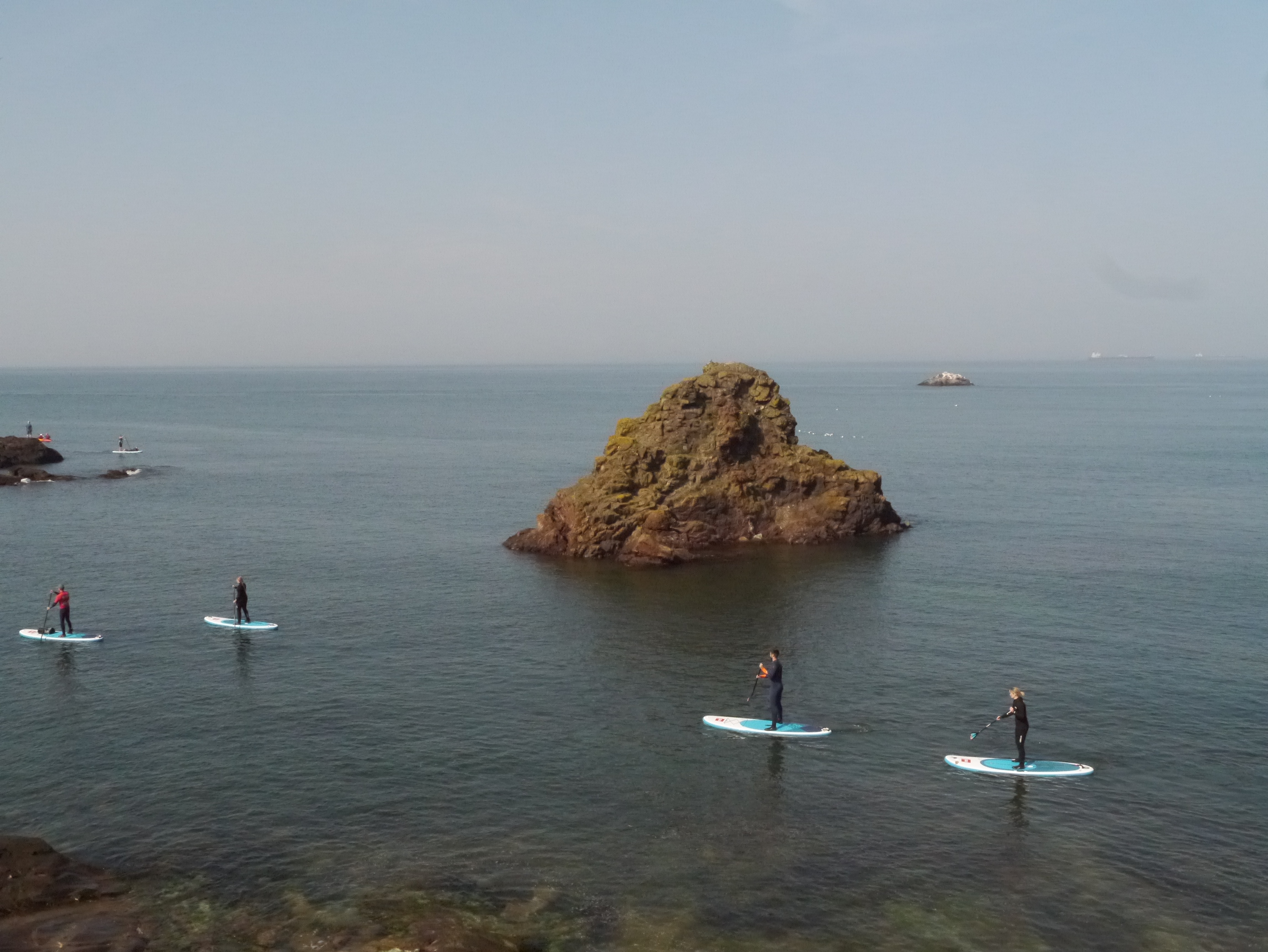 Paddle Boarders at Eye Cave Beach Dunbar